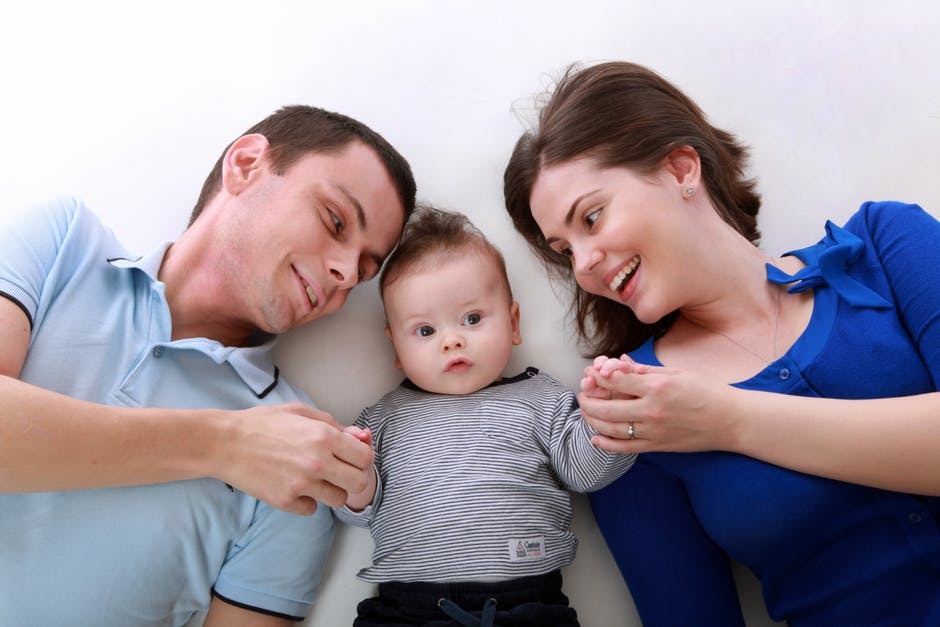 Happy parents and baby.